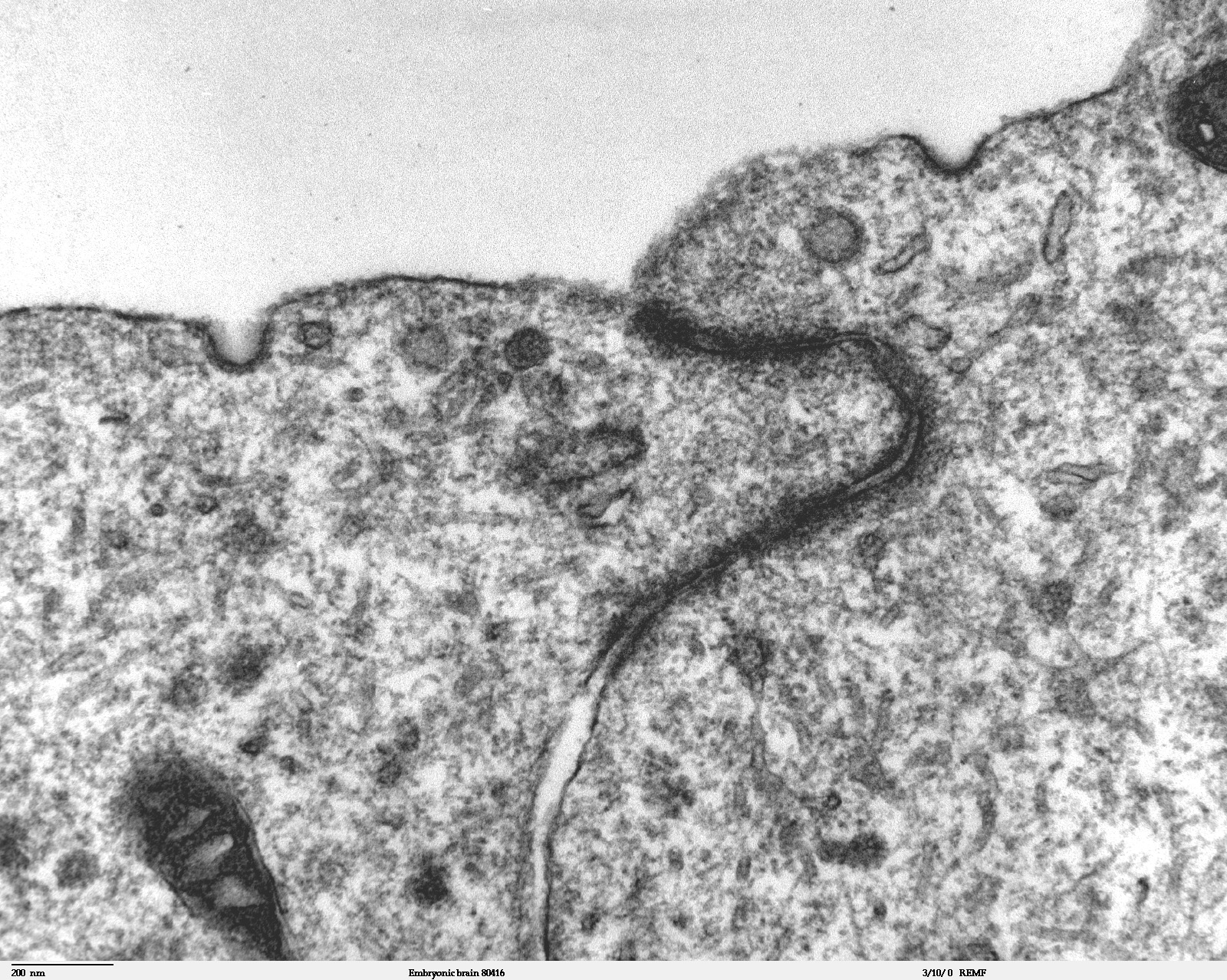 Transmission electron microscope image of a thin section cut through the developing brain tissue (telencephalic hemisphere) of an 11.5 day mouse embryo. This higher magnification image of "Embryonic brain 80415", shows an area of the luminal surface of the telencephalon, which has a junctional complex and pinocytotic vesicles. The junctional complex is divided into three types of junctions: 1) the most apical is the tight junction, which controls and/or restricts the movement of molecules across epithelial layers and helps maintain polarity, 2) the zonula adherens and 3) the desmosome, which is a spot junction. The pinocytotic vesicles are formed from coated pits in the plasma membrane and are involved in endocytosis. JEOL 100CX TEM References: Marin-Padilla, M. (1985) "Early Vascularization of the Embryonic Cerebral Cortex: Golgi and Electron Microscope Studies", J. Comparative Neurology, 241:237-249 Marin-Padilla, M. and M. Amievo (1989) "Early Neurogenesis of the Mouse Olfactory Nerve: Golgi and Electron Microscope Studies", J. Comparative Neurology, 288:339-352